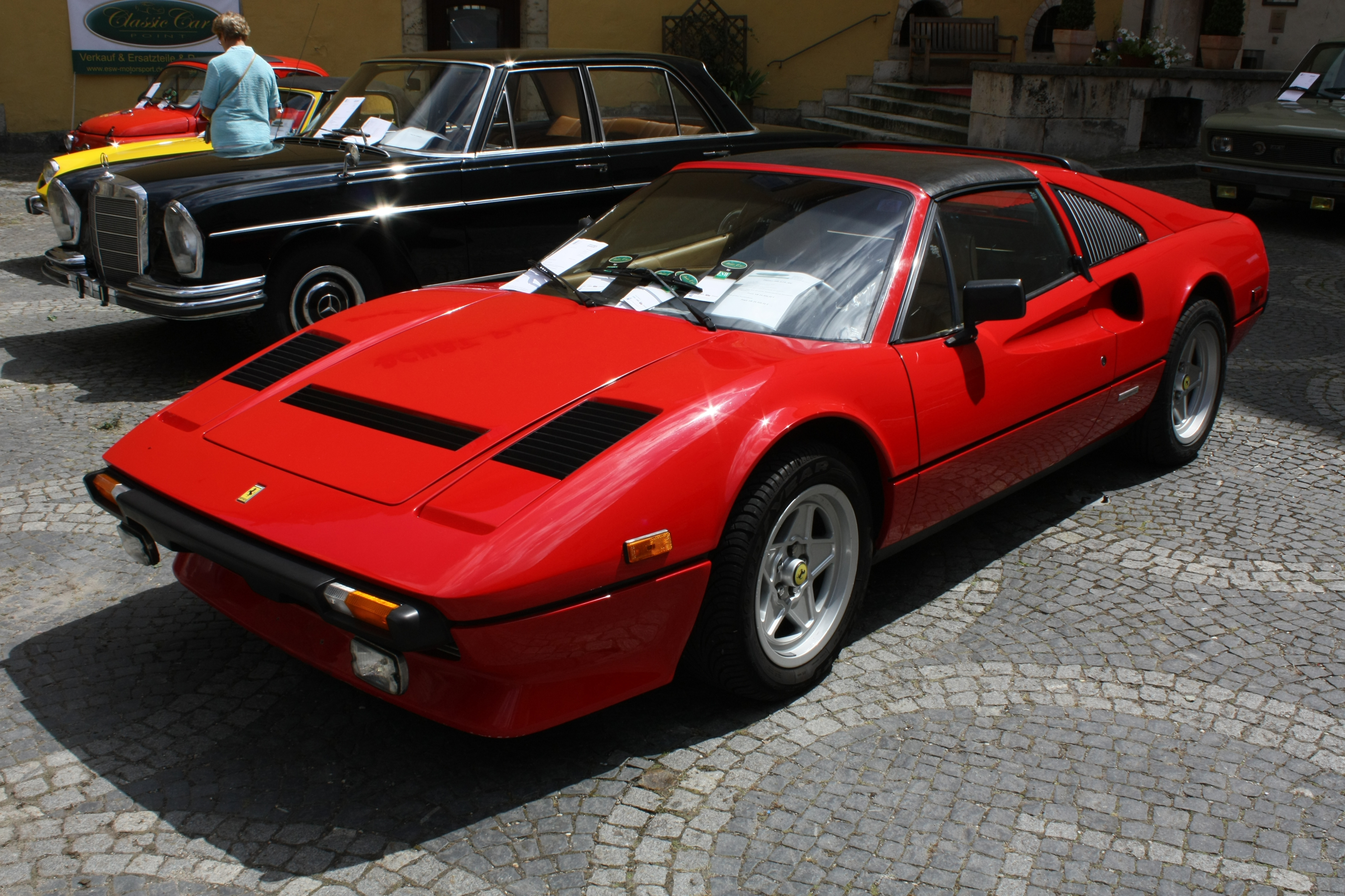 Ferrari 308 GTS